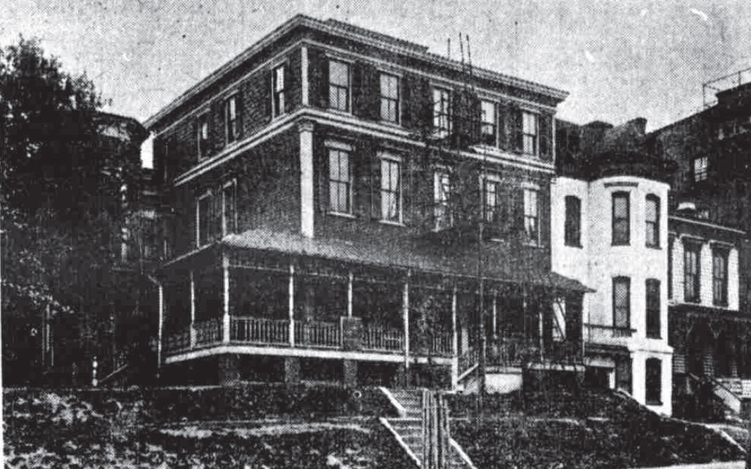 Lucy Webb Hayes National Training School, 1150 North Capitol Street, NW, and adjacent houses, shortly before they were rzaed in April 1912 to make way for an addition to Sibley Hospital, 2/27/11 Washington Times. From Sibley's web site: Sibley Memorial Hospital’s proud heritage can be traced to the year 1890, when the Lucy Webb Hayes National Training School for Deaconesses and Missionaries was founded by The Woman’s Home Missionary Society of the Methodist Episcopal Church in Washington, DC. The school was named for the first president of the Society, Lucy Webb Hayes, wife of Rutherford B. Hayes, 19th President of the United States. The mission of the school was to train nurse deaconesses. It was soon recognized that a hospital was needed to provide a clinical setting for nursing education and medical and nursing care to a growing Washington, DC, population. William J. Sibley, a member of the Foundry Methodist Church and an early supporter of the work of the National Training School, donated $10,000 for construction of a hospital in memory of his wife, Dorothea Lowndes Sibley. The hospital was dedicated on October 19, 1894, and opened to receive patients in March of 1895. The services of the hospital steadily expanded, and by 1925 the facilities filled the entire block on North Capitol Street at Pierce and M Streets, where the hospital continued to meet the growing healthcare needs of the community for the next 35 years.